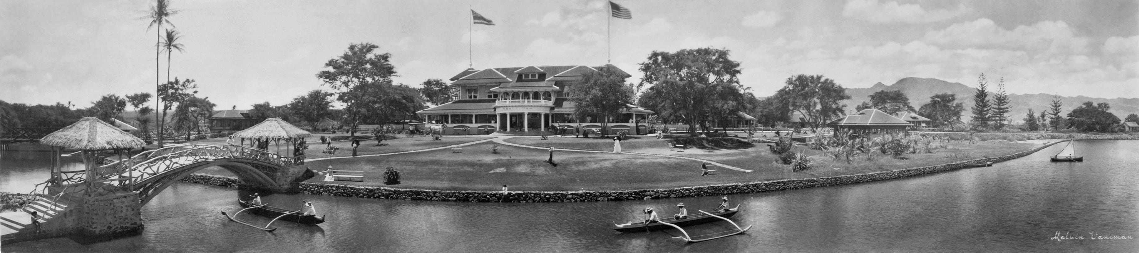 Panoramic view of Haleiwa Hotel by Melvin Vaniman. "Haleiwa Hotel, Honolulu [i.e., Haleiwa town, Honolulu County]". 1 photographic print : platinum ; 6.5 x 28.5 in. Haleiwa Hotel, four years after Benjamin Dillingham opened the hotel in 1898. Now Hale'iwa, Hawai'i. Hawaiʻi: Haleiwa Hōkele